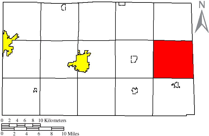 Made by the US Census and modified by myself